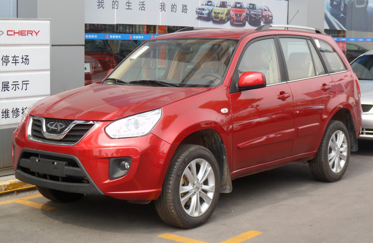 Chery Tiggo facelift II photographed in Shanghai, China.